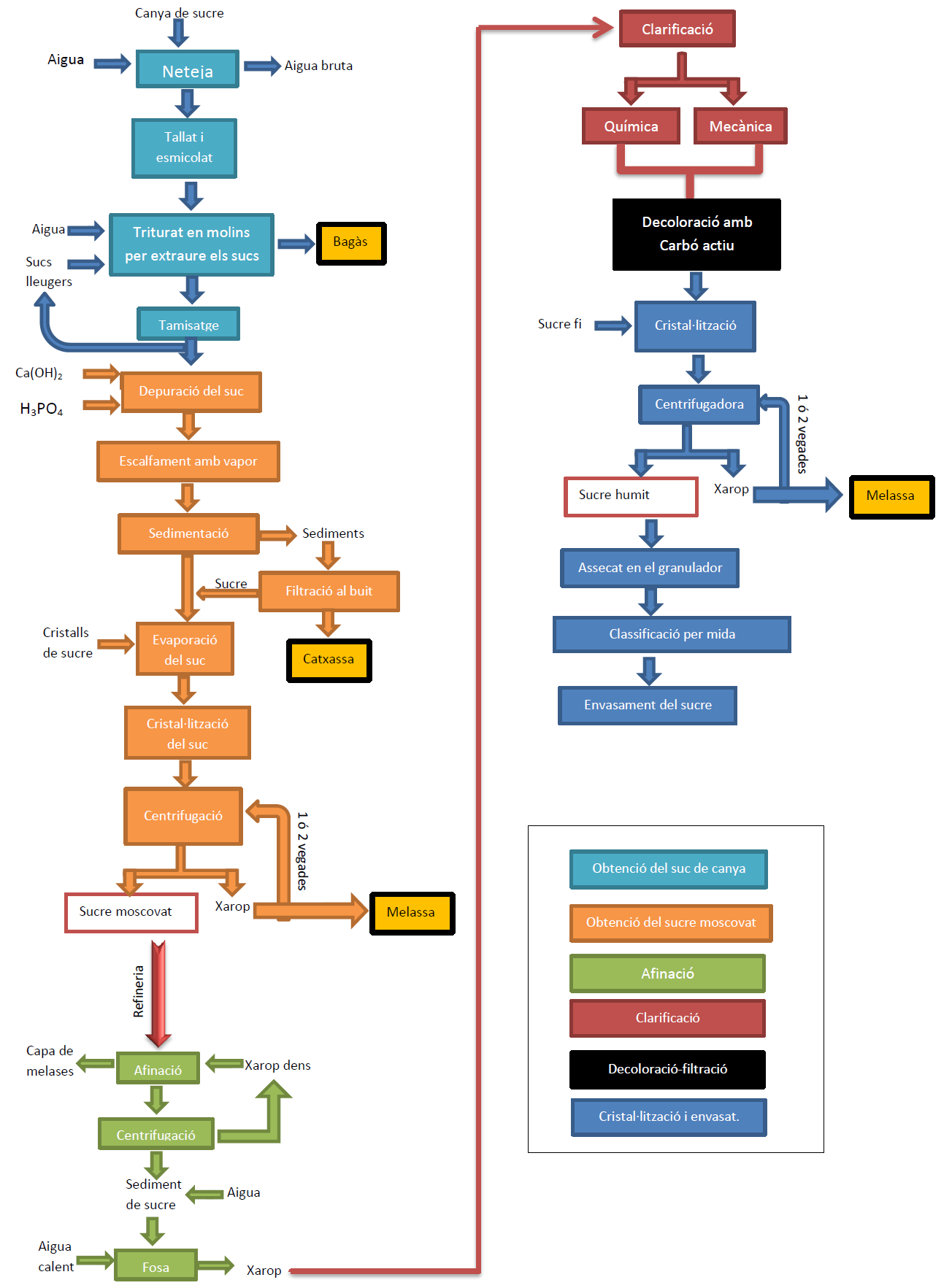 sugar cane diagram